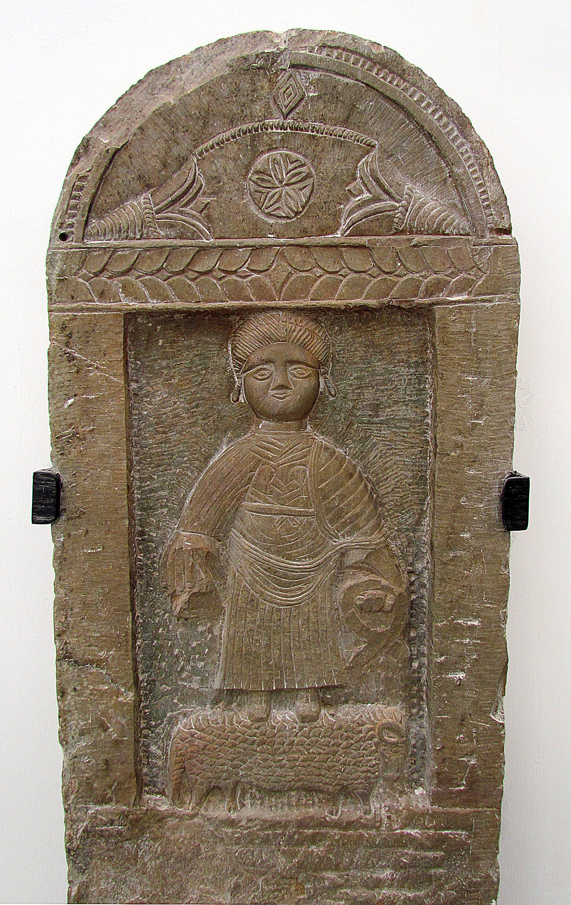 Numidian stela (Bardo Museum)